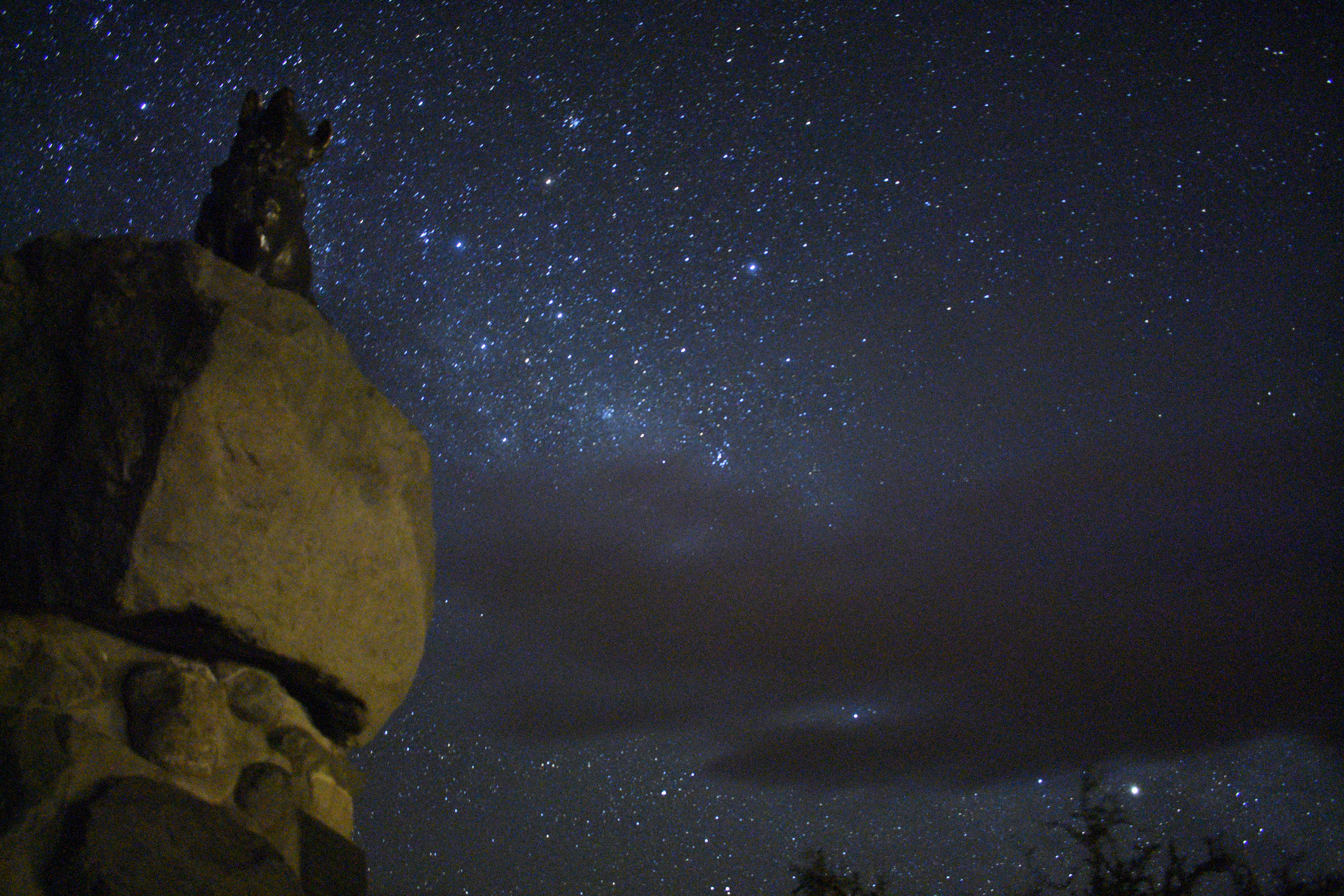 stargazing view in lake tekapo in New Zealand, south island, Mackenzie region